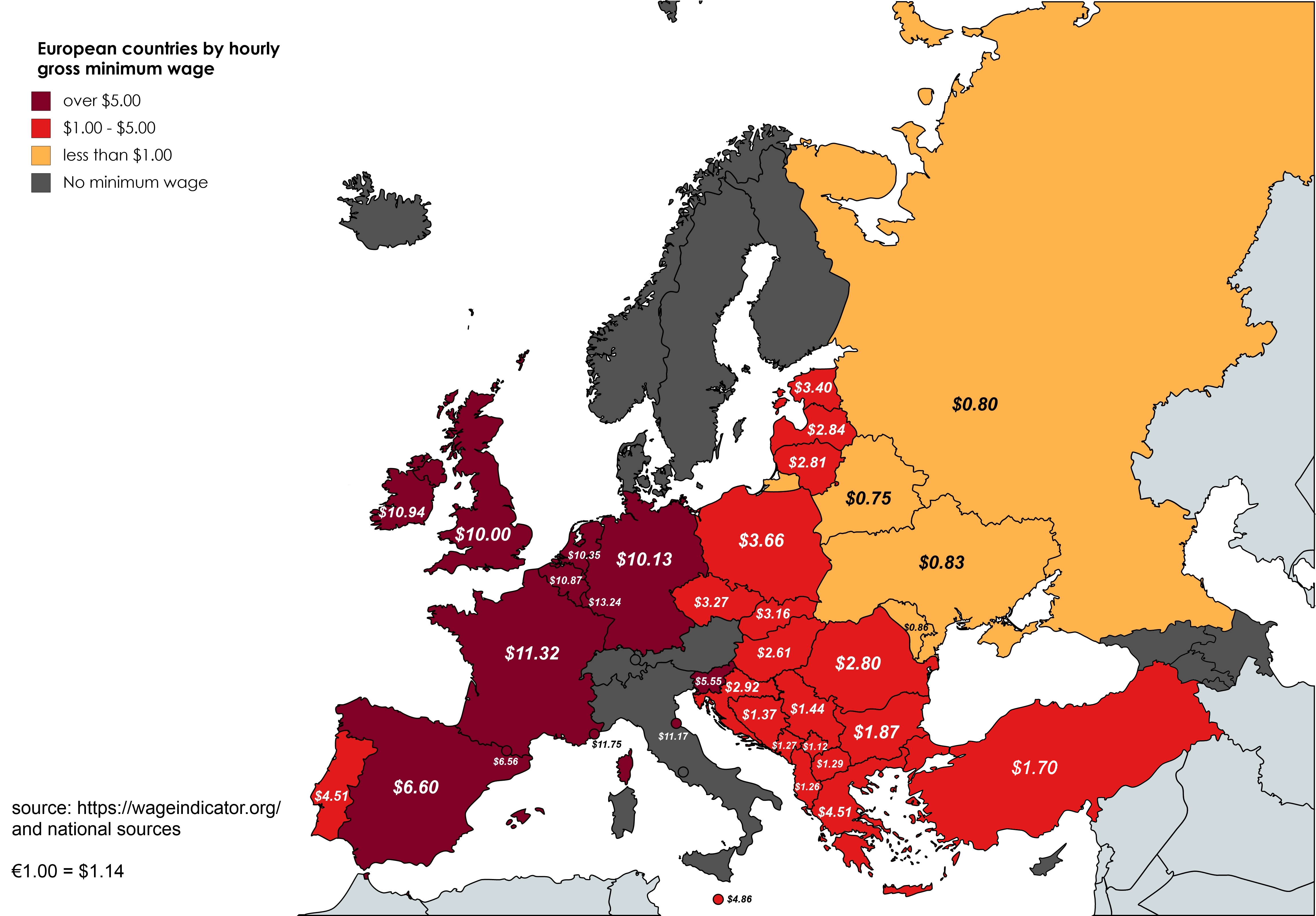 European countries by hourly gross minimum wage (USD)